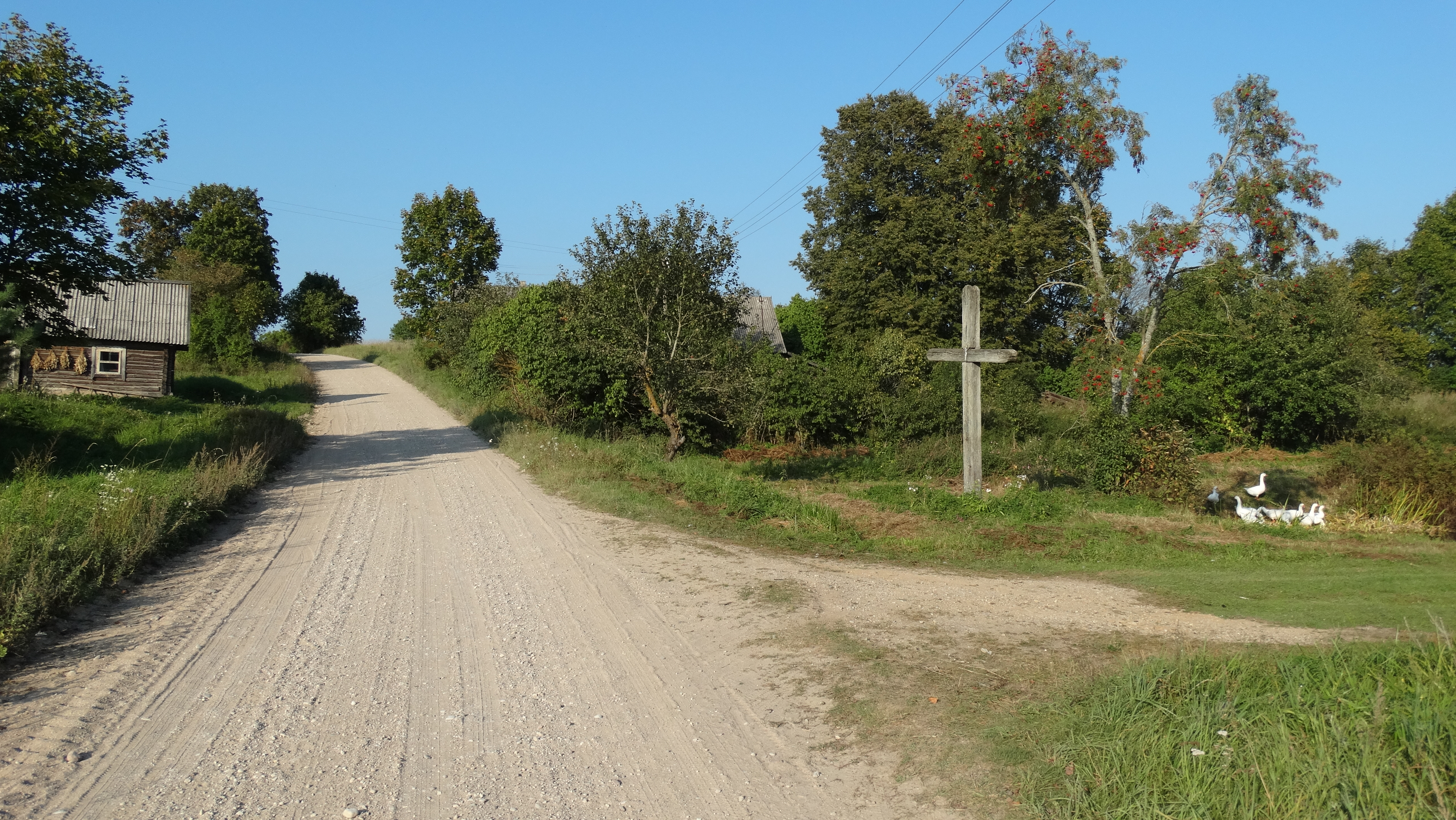 Rūsteikiai, Zarasai district, Lithuania